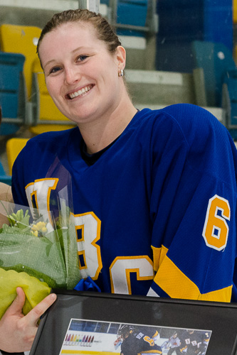 Photograph of Amanda Asay before a University of British Columbia Thunderbirds women's hockey game